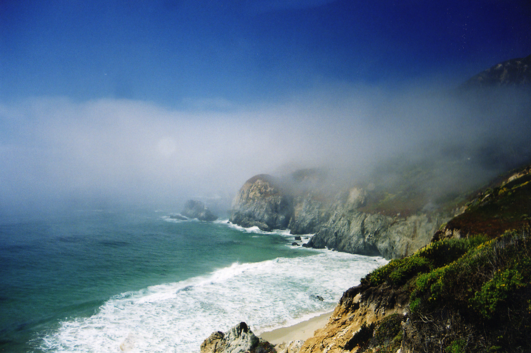 Big Sur and fog on a typical day in June. Photo by Googie Man